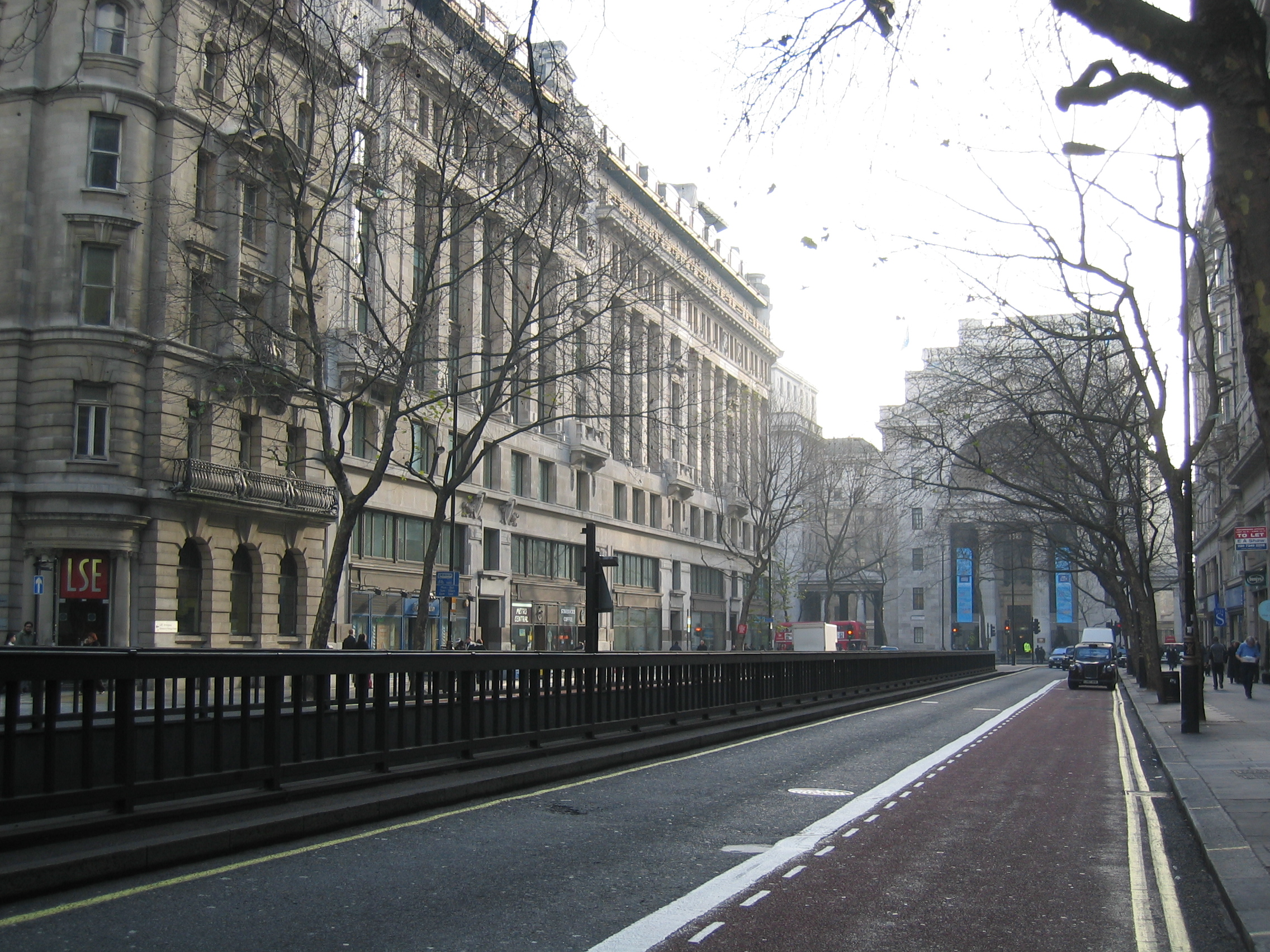 LSE,BBC,Kingsway